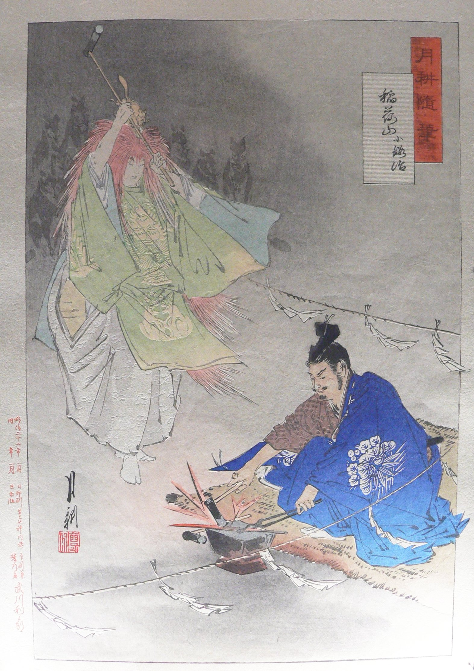 Title: "Gekko's Essay - Blacksmith and Divine Fox". Blacksmith Munechika (end of the 10th century), helped by a fox spirit (left, surrounded by little foxes), forging the blade Ko-Gitsune Maru (“Little Fox”).